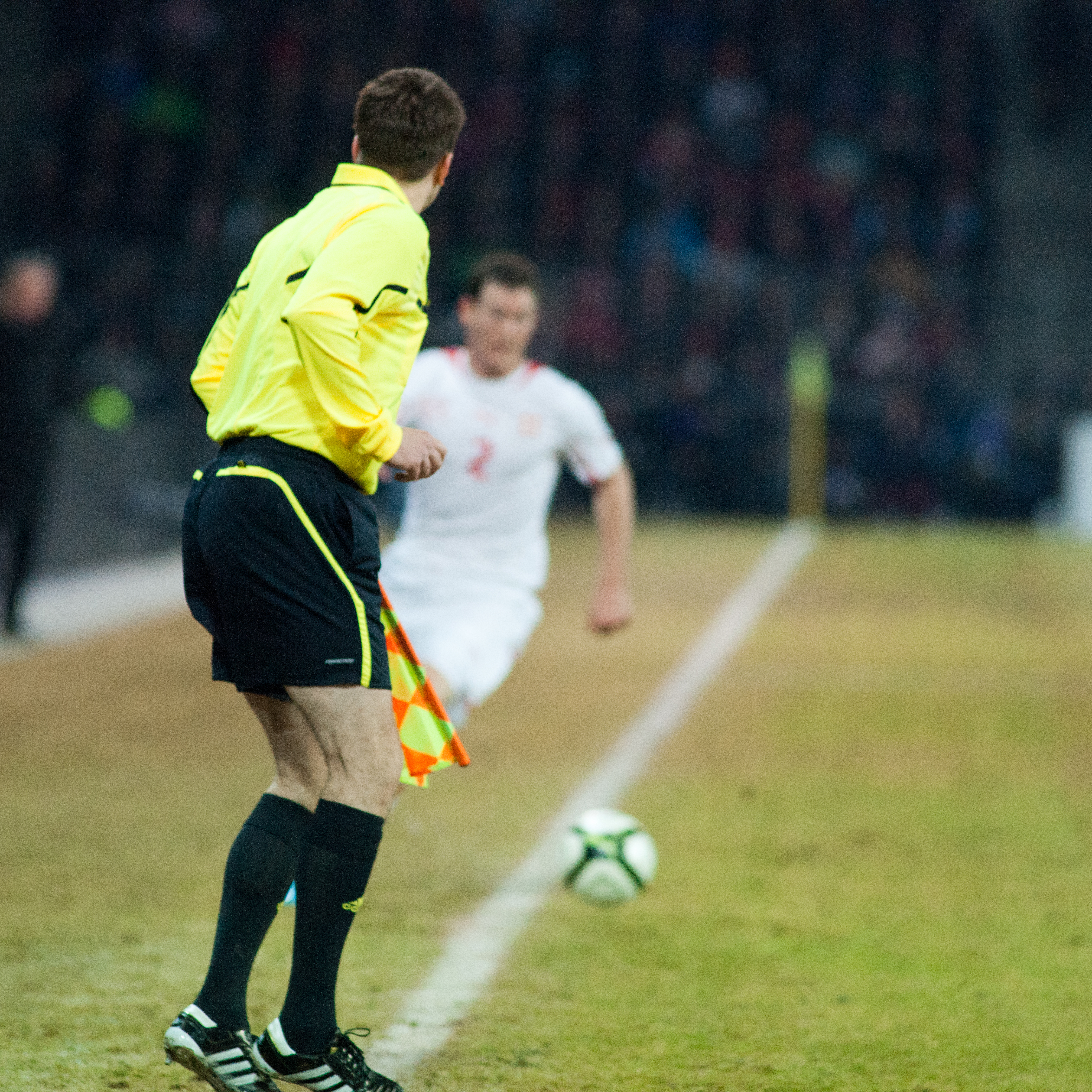 The making of this document was supported by Wikimedia CH. (Submit your project!) For all the files concerned, please see the category Supported by Wikimedia CH. Switzerland vs. Argentina, 29th February 2012